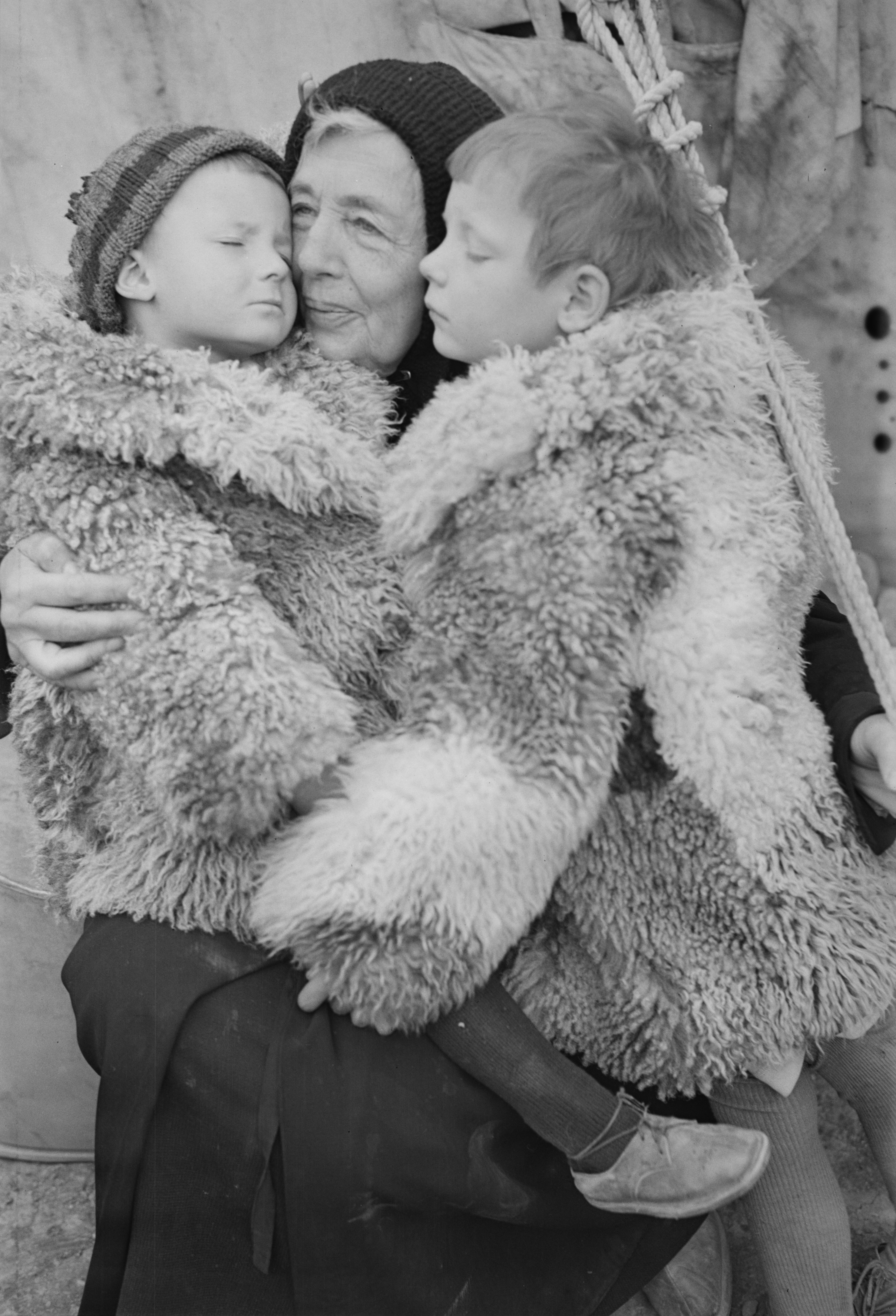 Teheran, Iran. Polish woman and her grandchildren shown in an American Red Cross evacuation camp as they await evacuation to new homes